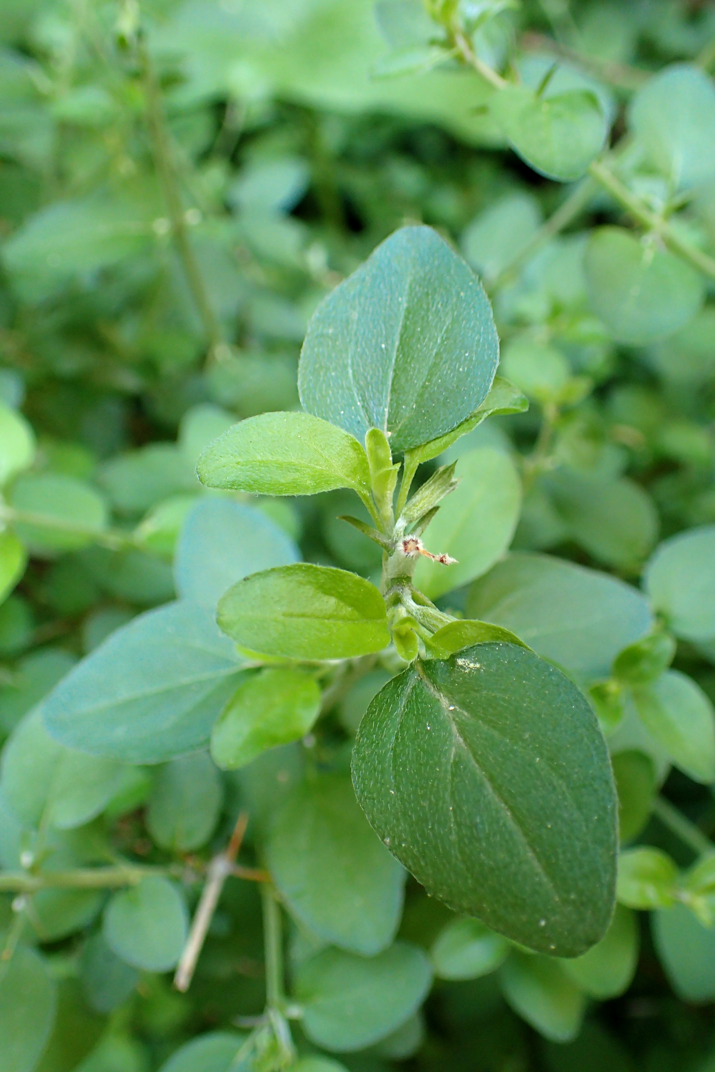 Acanthoprasium integrifolium in Avakas Gorge, Cyprus